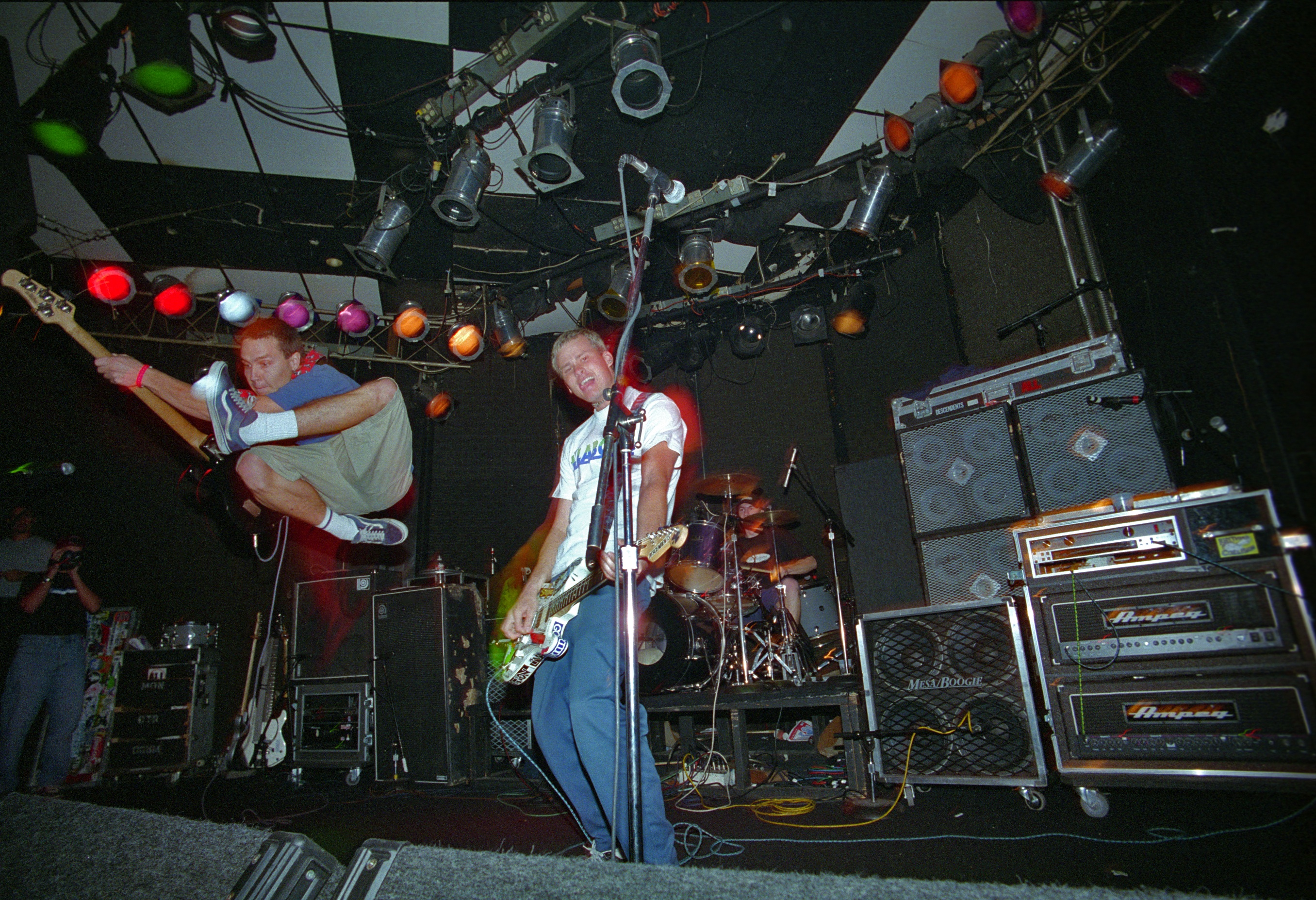 Blink-182 at the Whiskey in Los Angeles, 10-7-1996